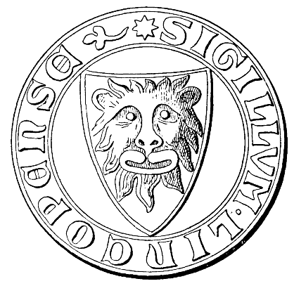 The seal of the town of Linköping, Sweden. Year 1300